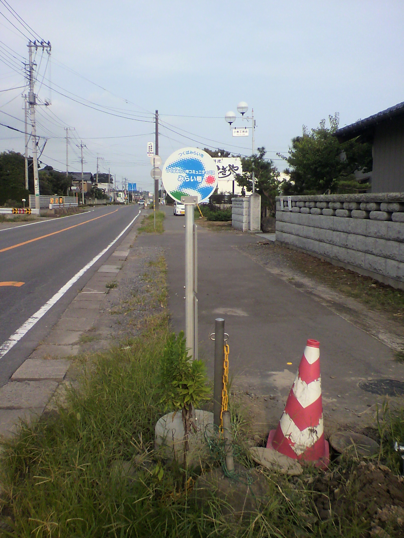 This is a bus stop for Tsukubamirai city community bus "Mirai-go". This bus stop's name is "Yawara Yubinkyoku Mae".